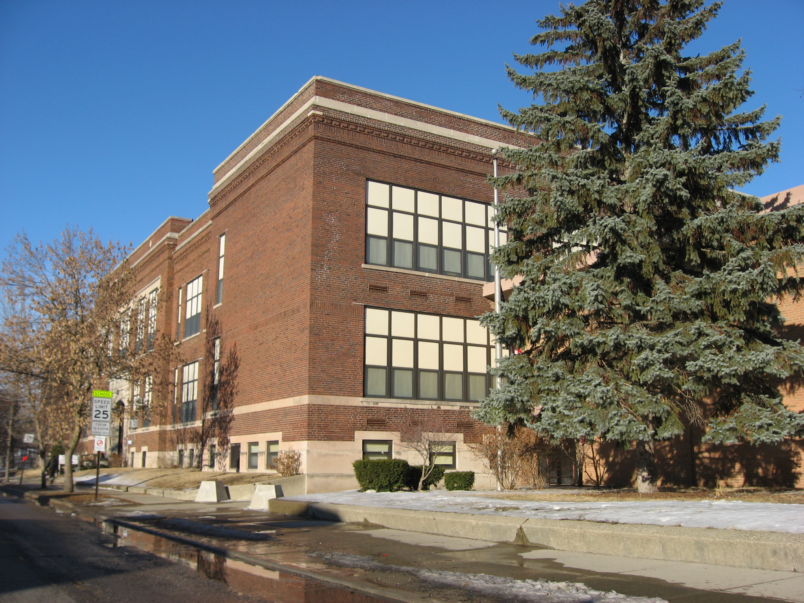 Front of the Ralph Waldo Emerson Indianapolis Public School No. 58, located at 321 N. Linwood Street in Indianapolis, Indiana, United States. Built in 1907, it is listed on the National Register of Historic Places.